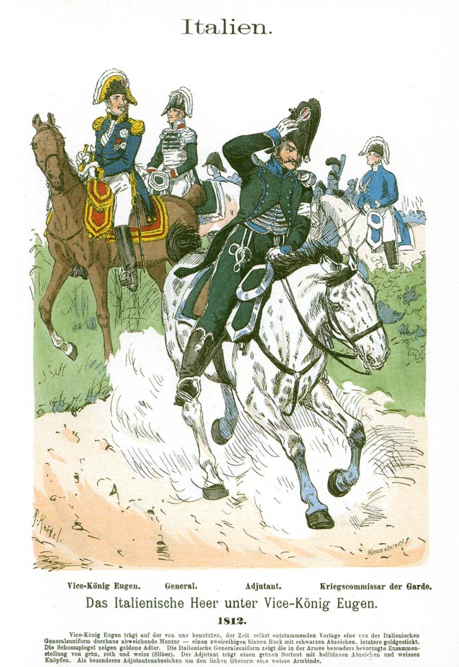 Italien. Das italienische Heer unter Vice-König Eugen. 1812